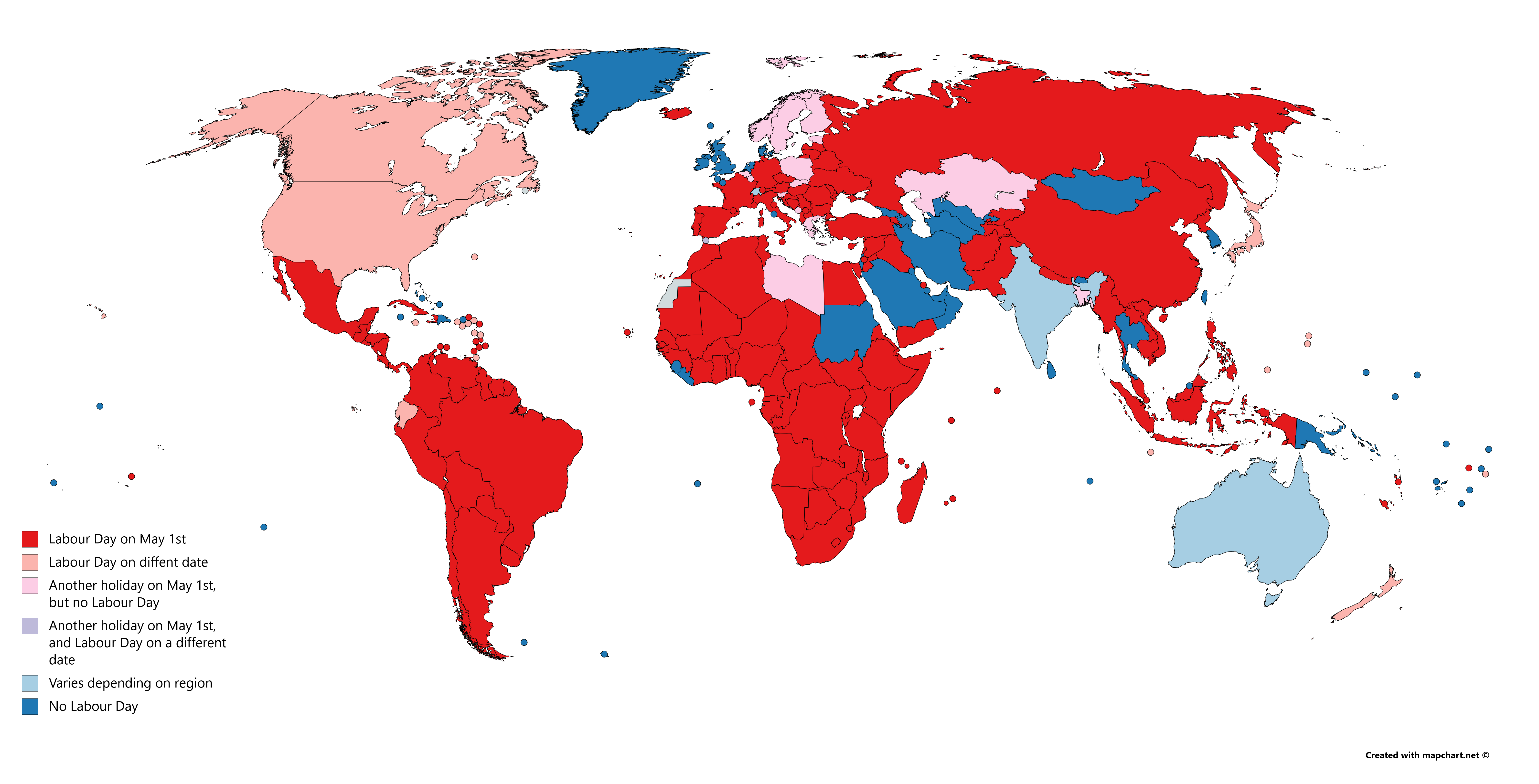 States and dependencies coloured by observance of International Workers' Day or a different variant of Labour Day.